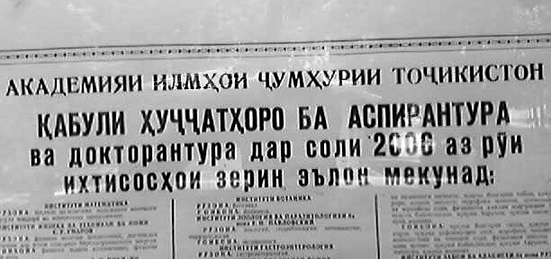 A newspaper ad by the Tajikistan Academy of Sciences, inviting applications for graduate study at the Academy's research institutes. Photograph procured from a friend who releases it in the public domain. Extensively edited by myself.